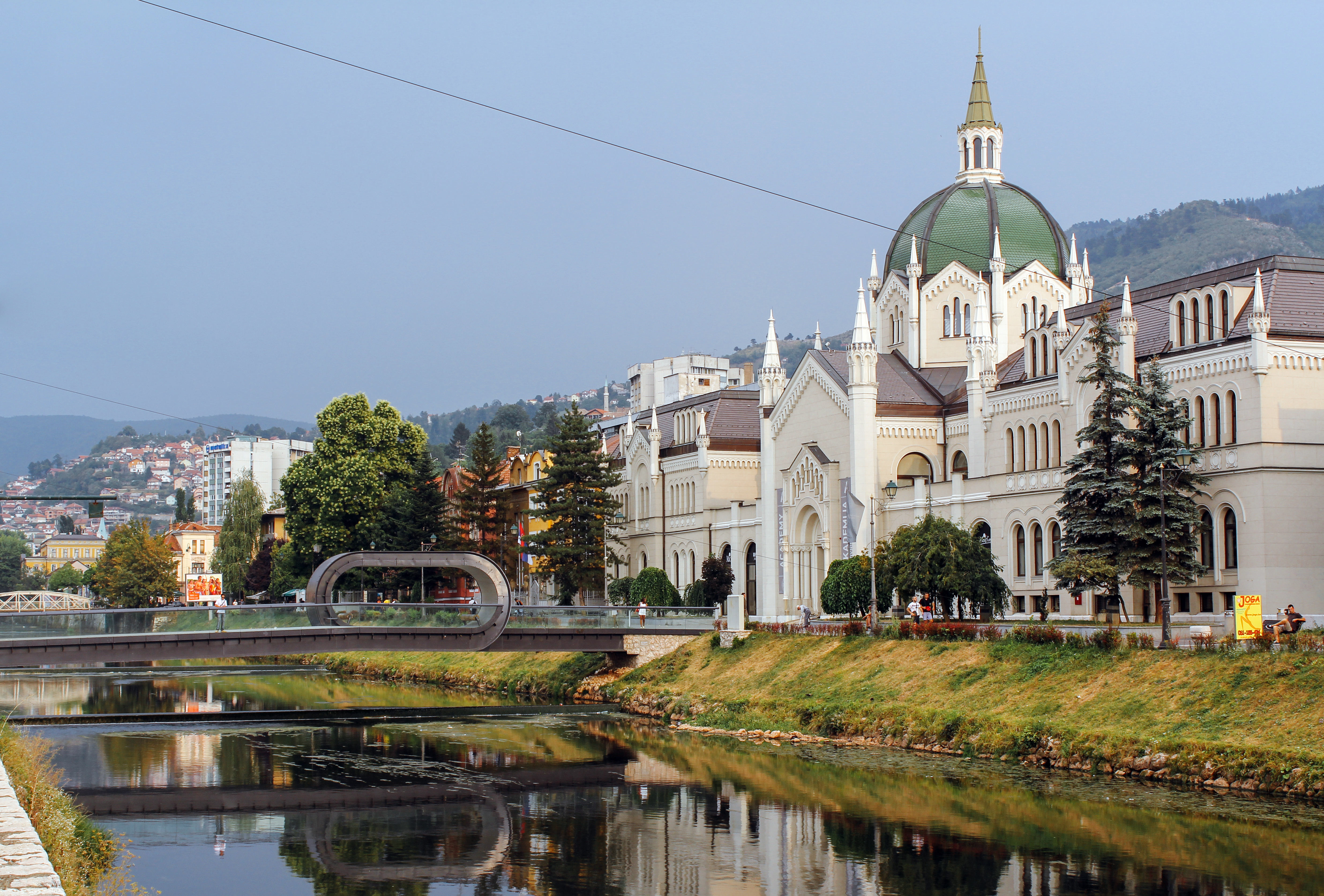 Academy of fine art and bridge Festina lente in Sarajevo